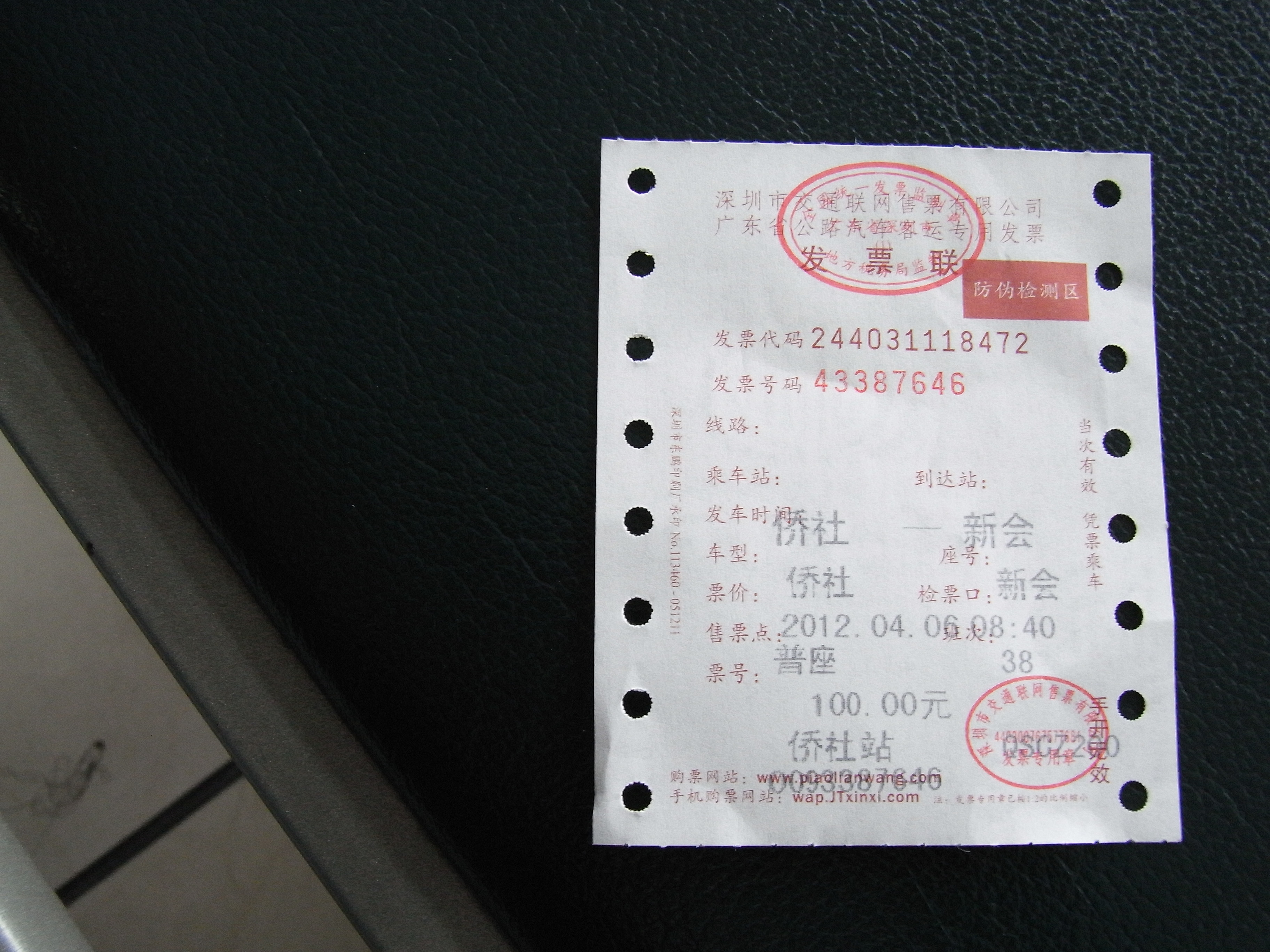 深圳 僑社汽車客運站 Qiaoshe Bus Terminal, Overseas Chinese Building, Shenzhen, China